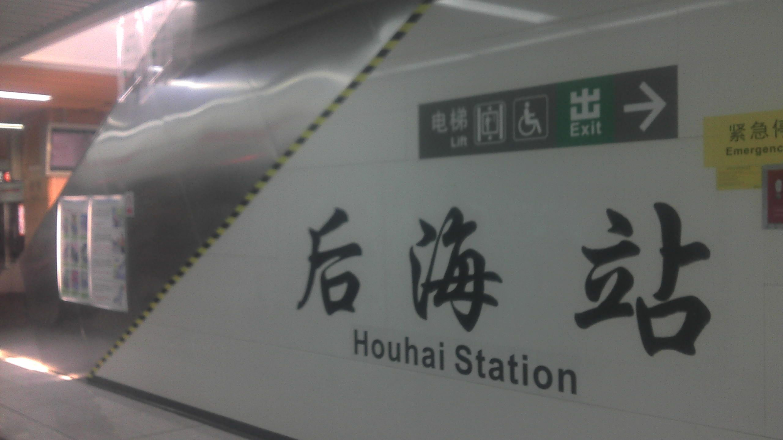 This photo was taken as Oct 22, 2011.